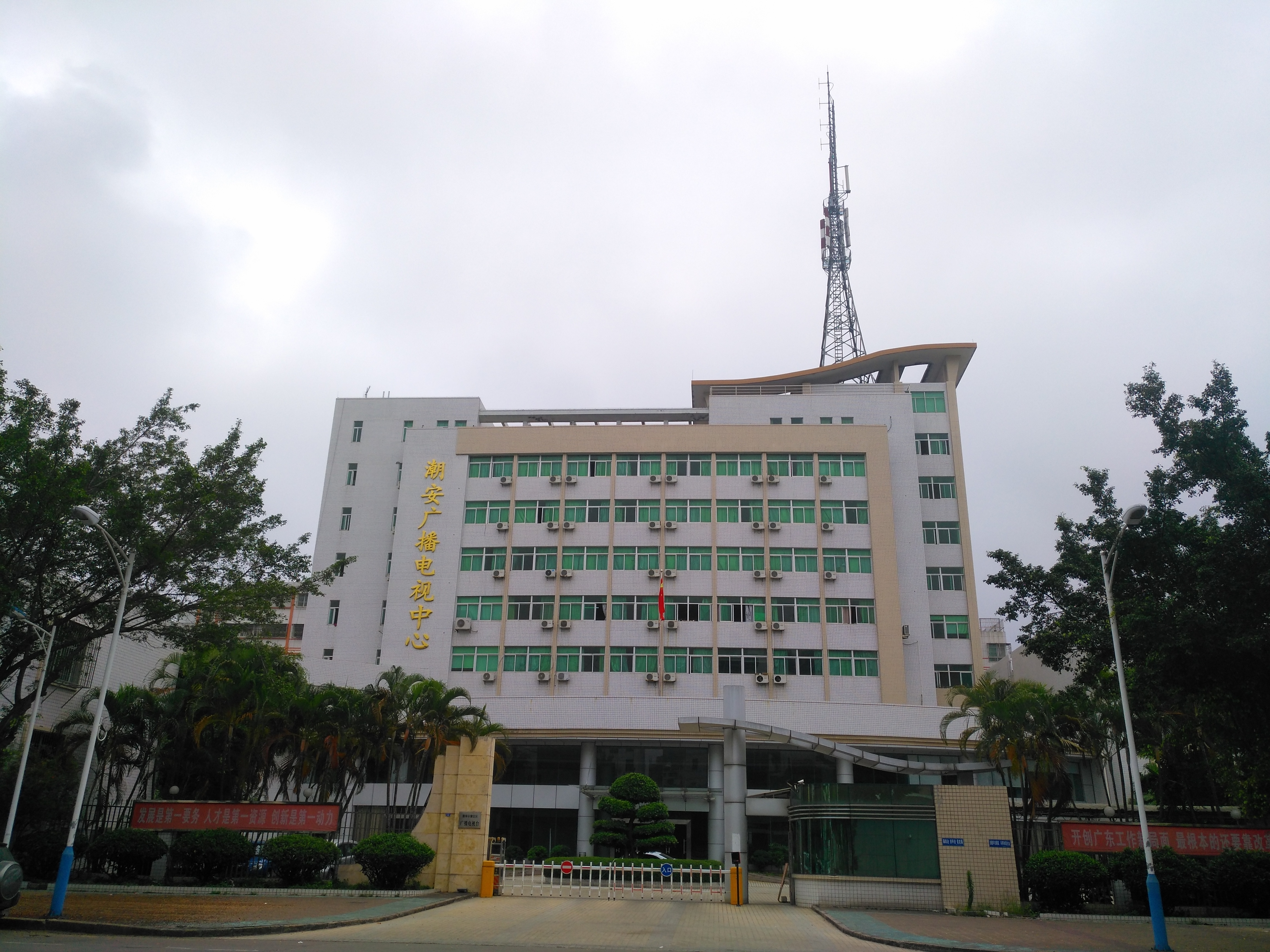 Chaoan Radio Television Center, Chaozhou City.